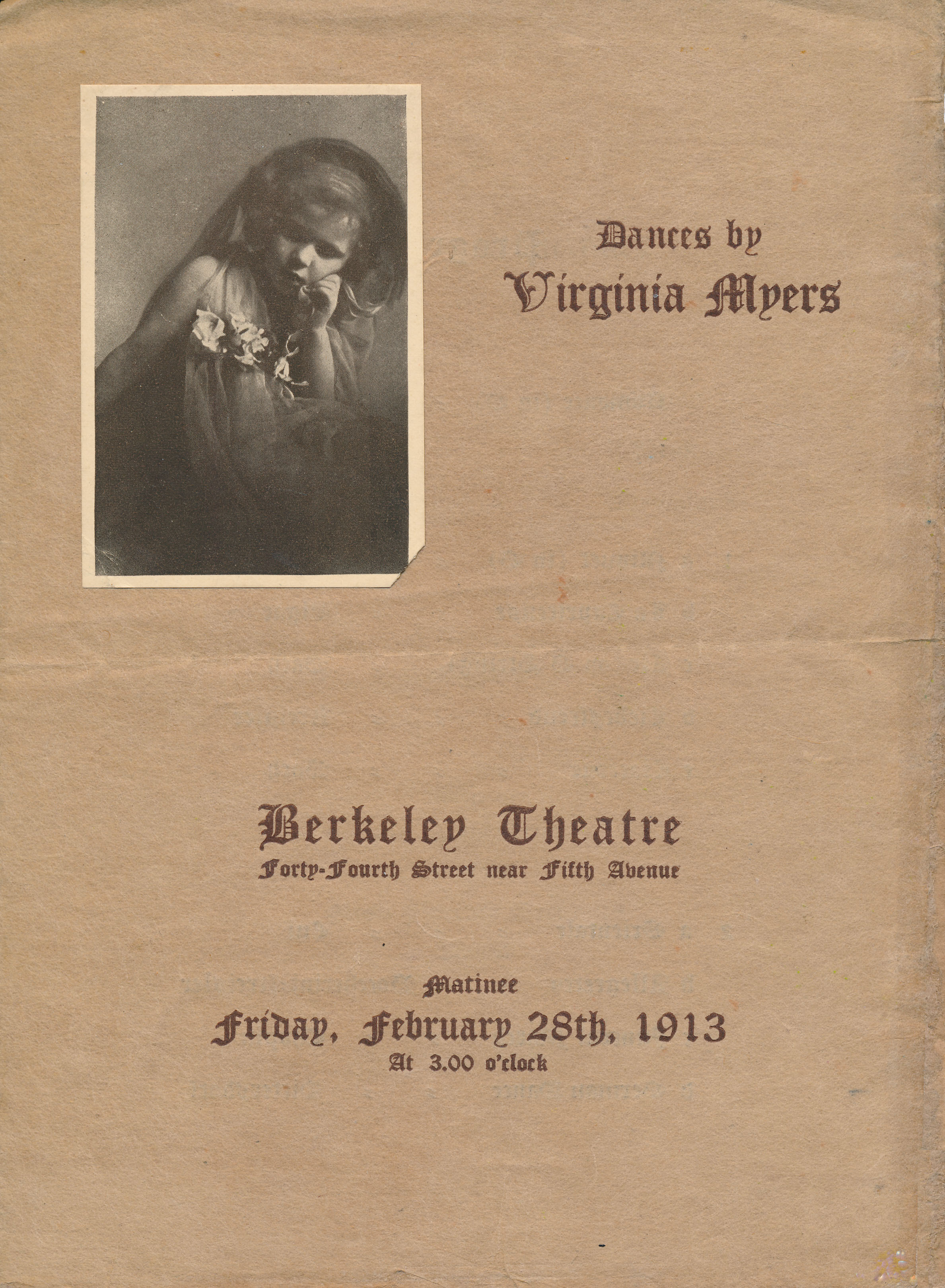 Virginia Myers program for performance in 1913